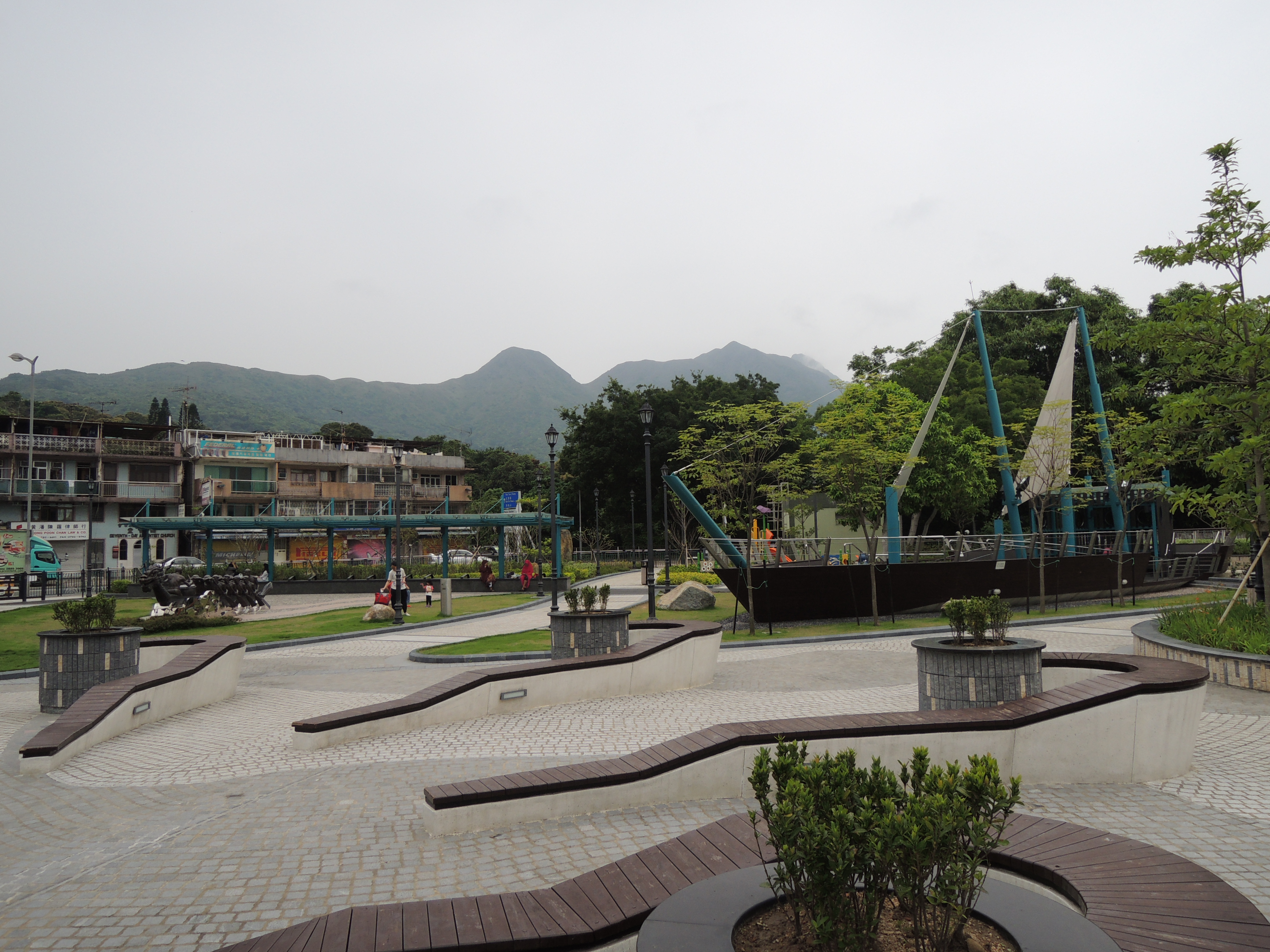 Fuk Man Garden (Fuk Man Road, Sai Kung)中文（香港）: 福民花園 (西貢福民路)